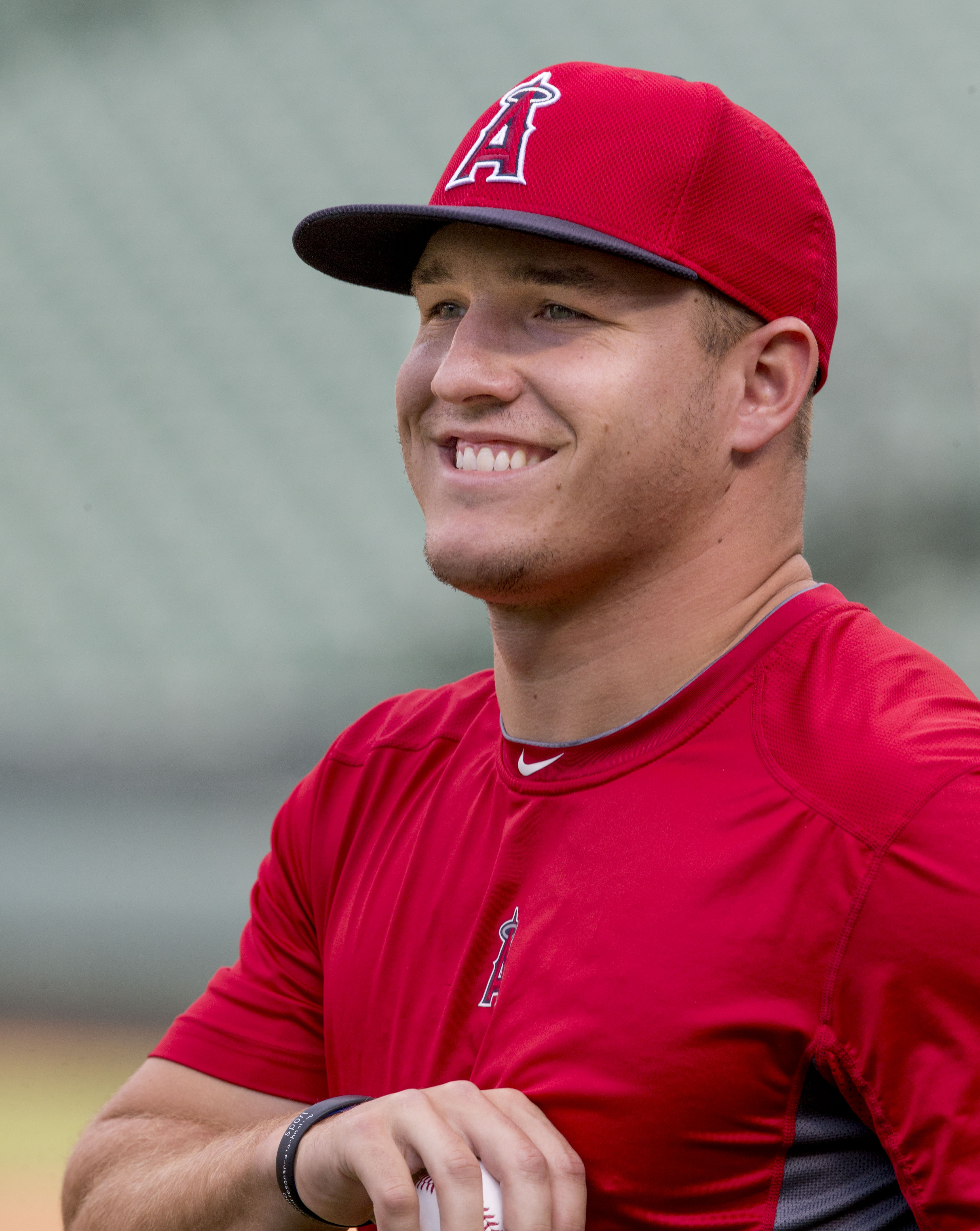 Mike "The Millville Meteor" Trout of the Los Angeles Angels of Anaheim, July 31, 2014.